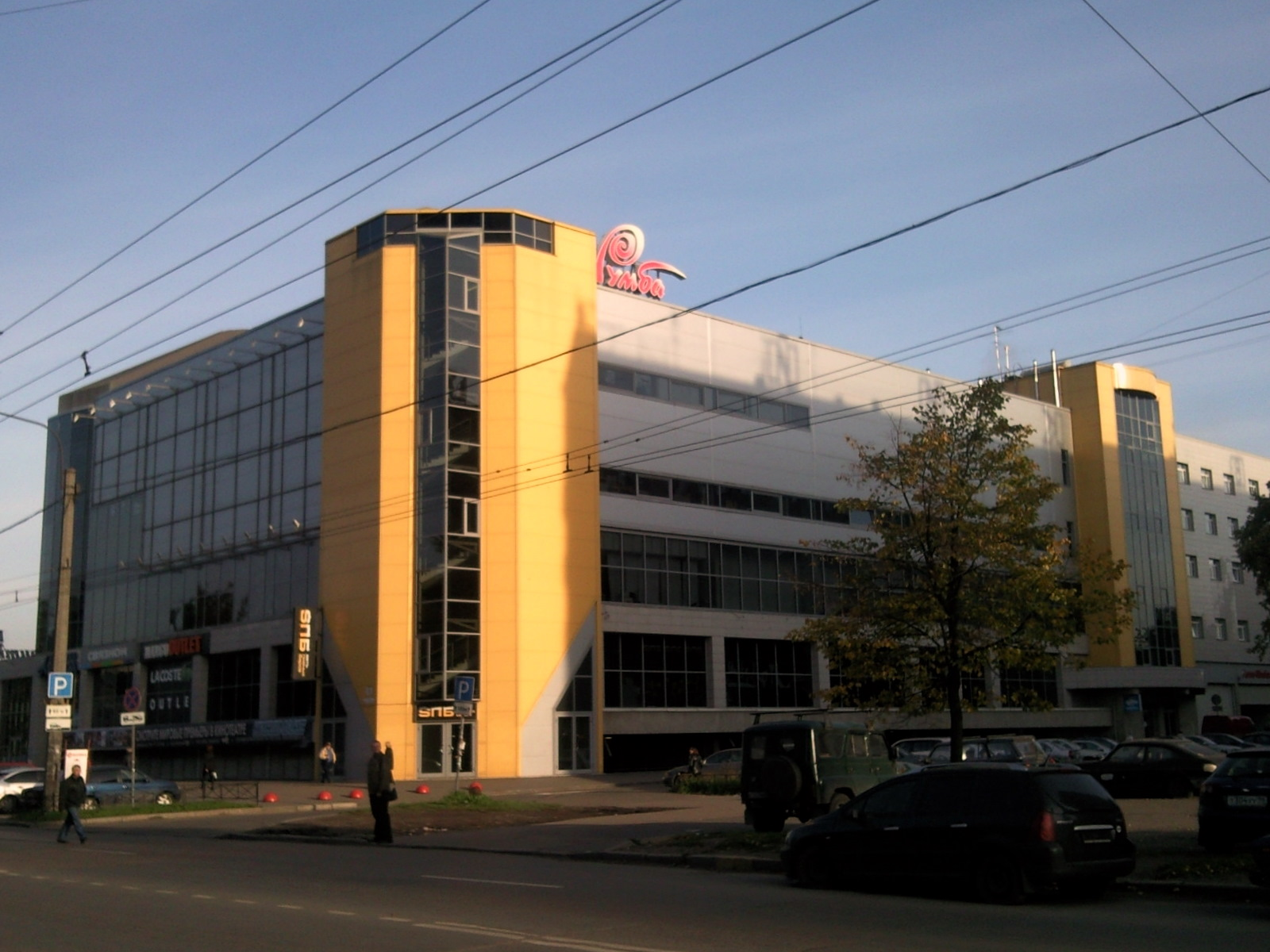 Vasi Alekseeva Street in Saint Petersburg